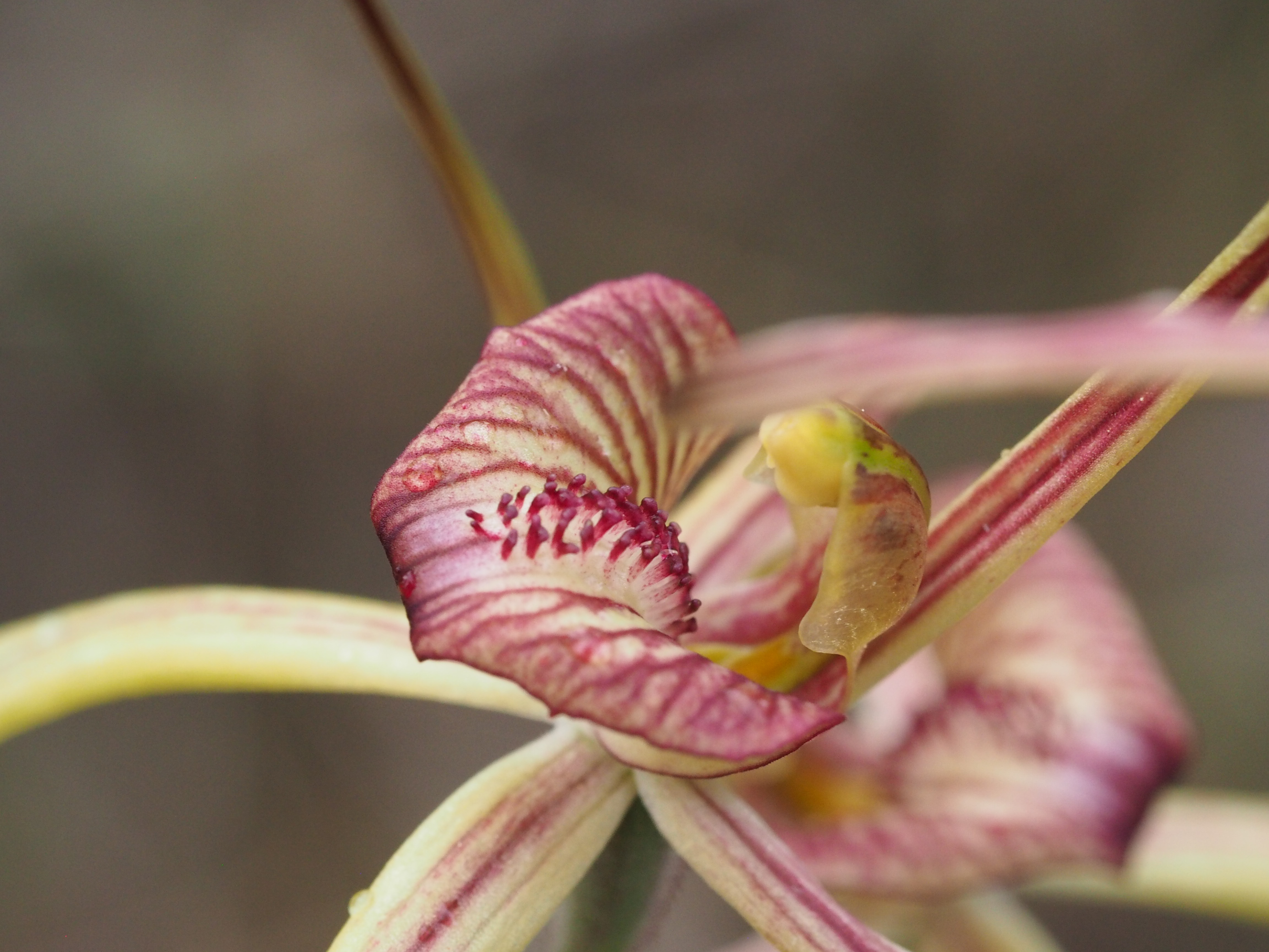 Caladenia doutchiae growing near the Catholic cemetery in Beverley, Western Australia